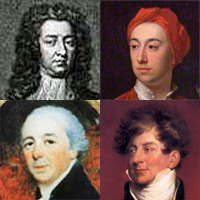 Clockwise from top left: Henry Boyle, 1st Baron Carleton, Richard Boyle, 3rd Earl of Burlington, George IV of the United Kingdom and John Nash